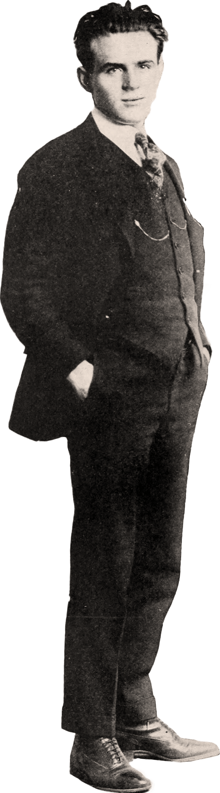 Anthony Paul Kelly